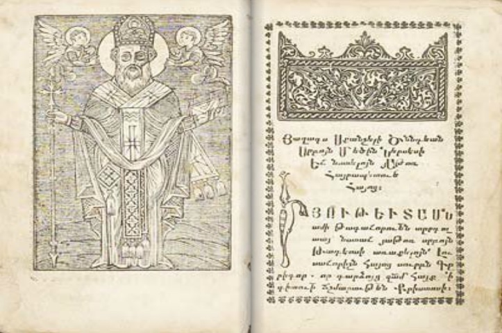 Mesrop Vayotsdzoretsi, "History of st. Nerses Partev"